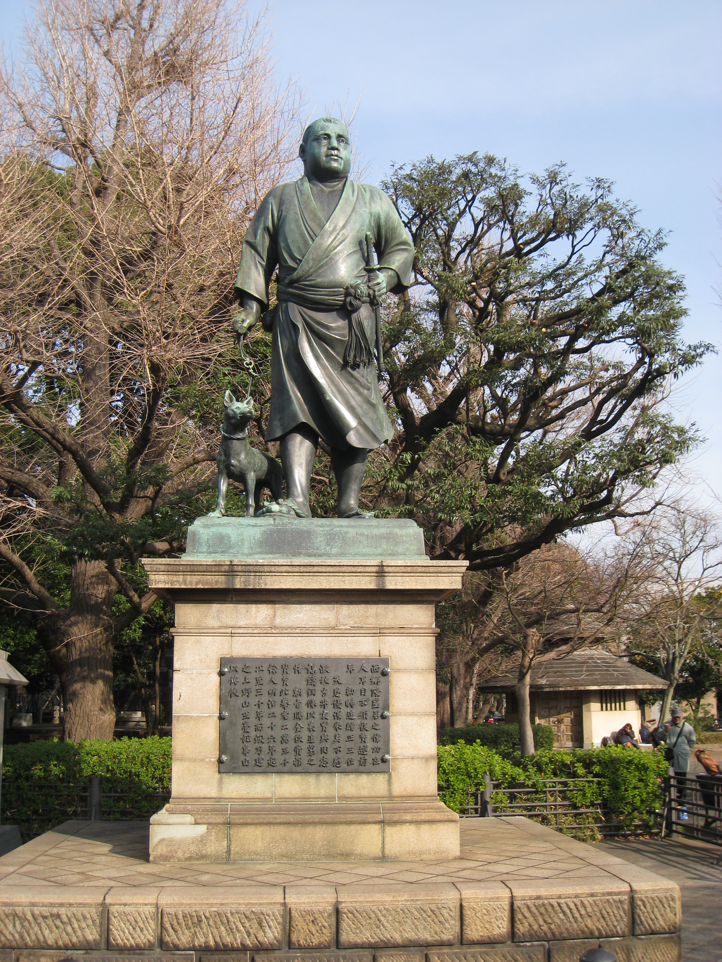 Statue of Saigō Takamori, Ueno Park, Tokyo, Japan. This statue is old enough so that copyright restrictions (if any) have long since expired.